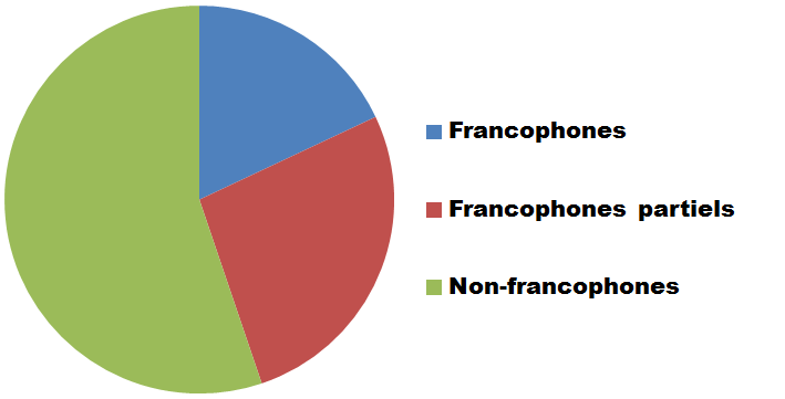 Percentage of people with knowledge of French in Cameroon in 2005, according to the OIF. Source: Estimation of number of French speakers all over the world